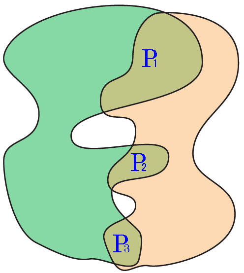 An illustration of 解析接続（Analytic continuation）